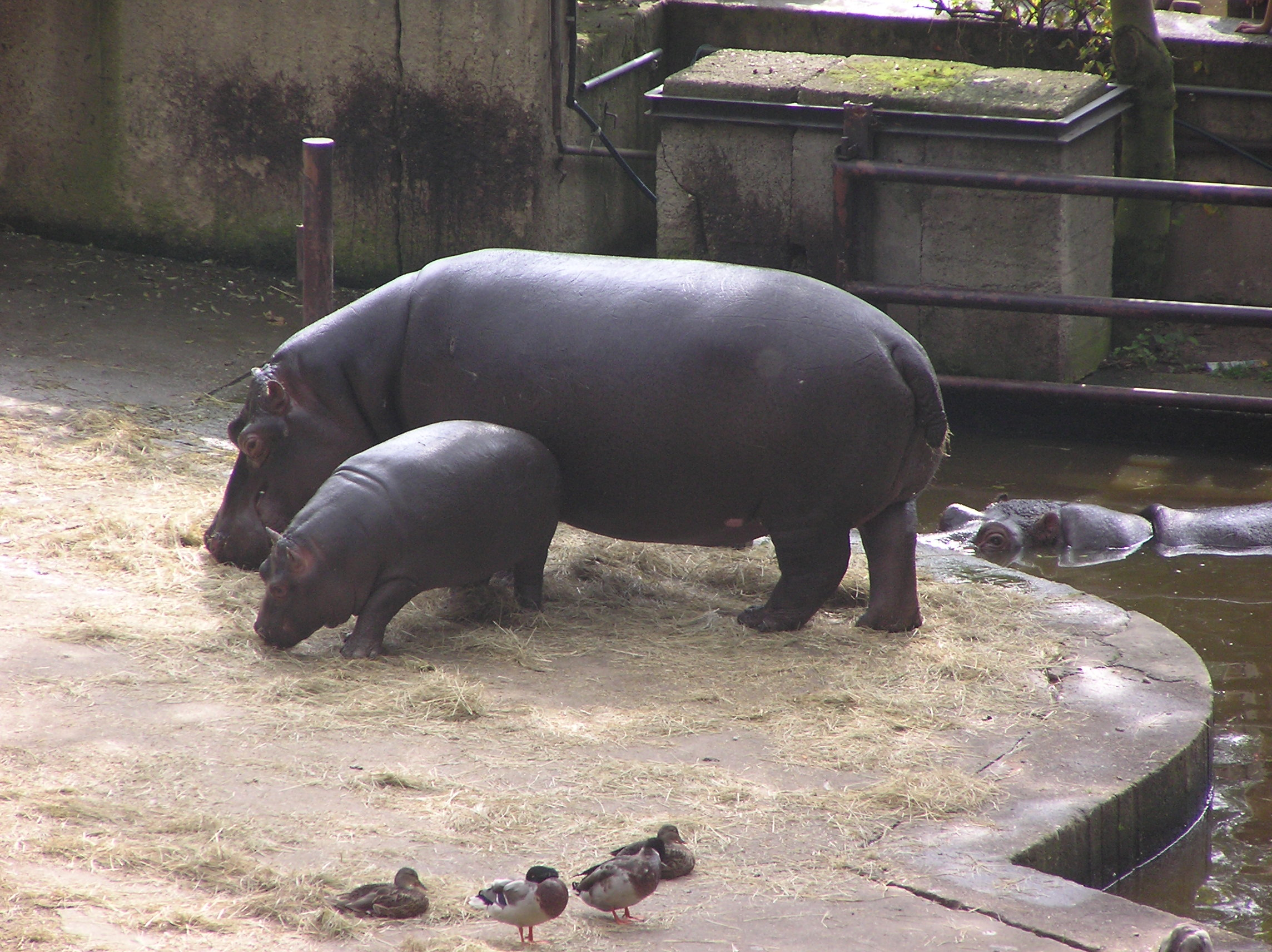 Hippopotamus amphibius, photographed in Prague ZOO, 2006-09-28. Lemur catta, photographed in Prague ZOO.